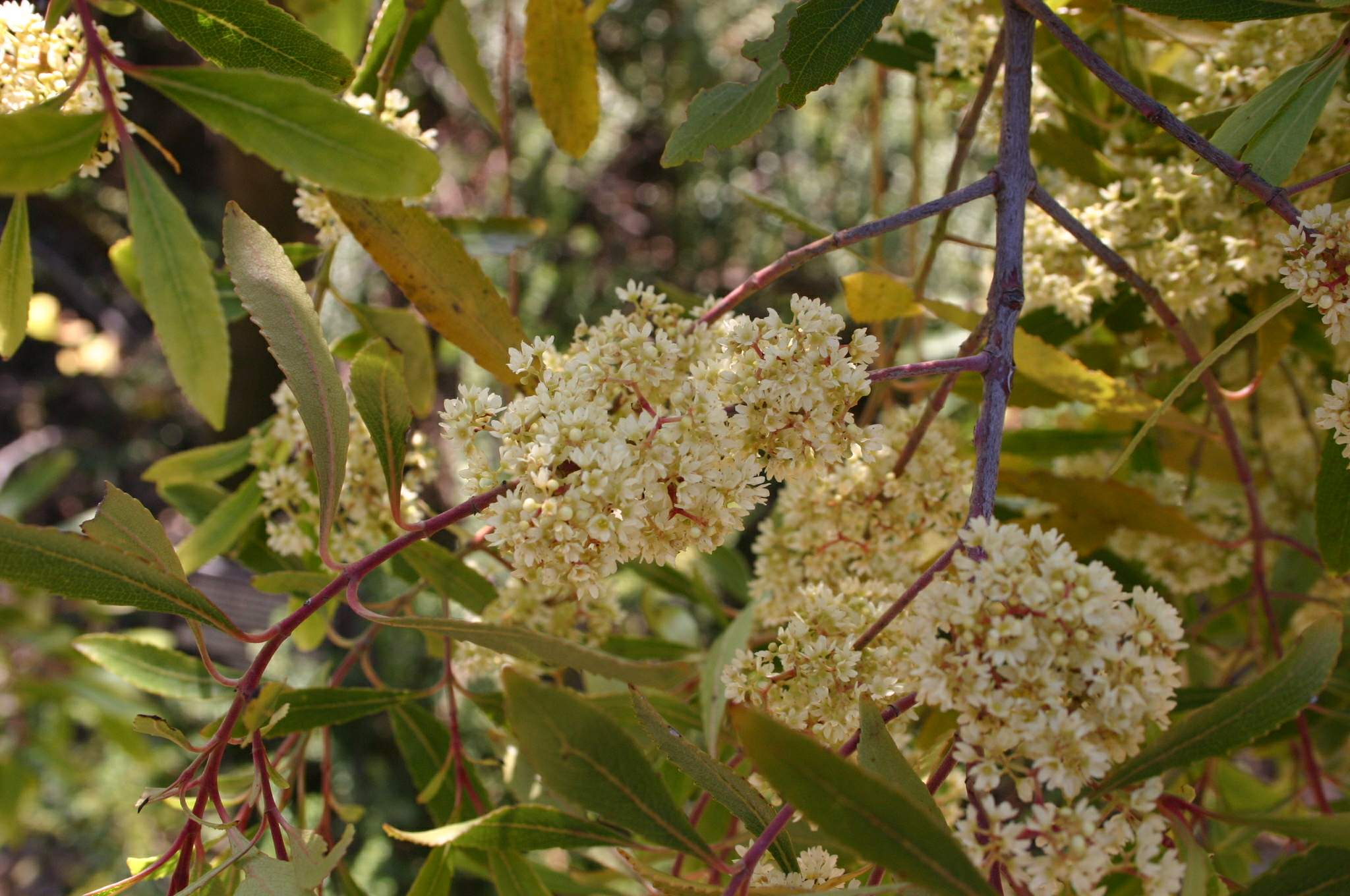 Leaves and flowers of the Bushman's tea, in Walter Sisulu Botanical Garden, Ruimsig, Johannesburg